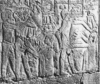 Ancient Egyptian circumcision, in the tomb of the Vizier Ankhmahor and his wife Mereruka. Sixth Dynasty (Old Kingdom, ca. 2300 BC)